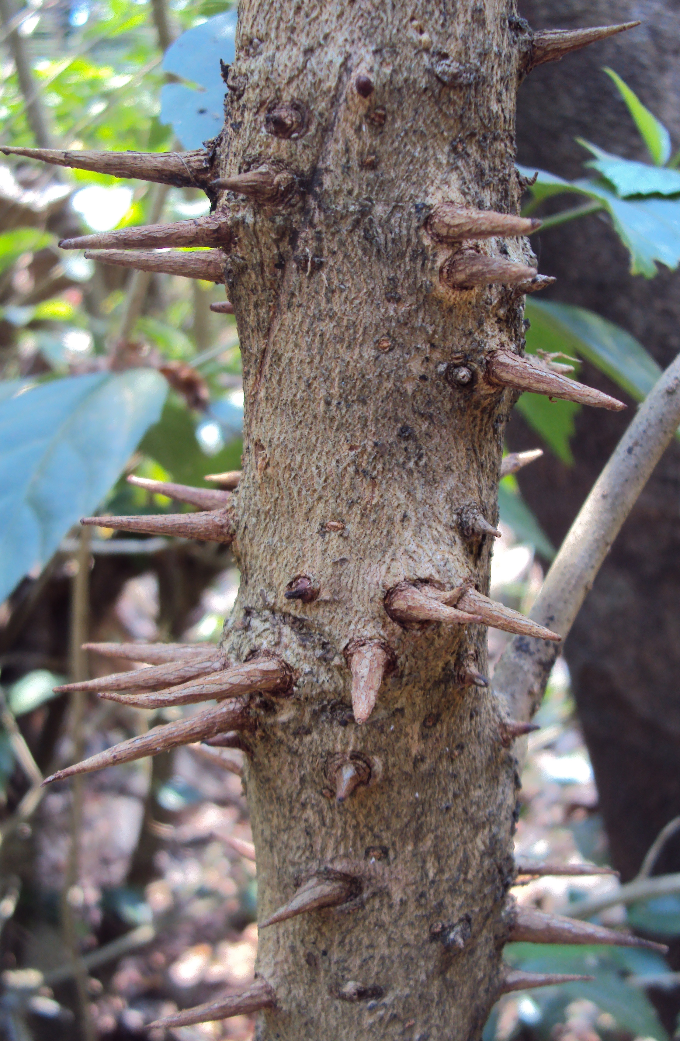 Bridelia retusa bark -Spinous Kino tree - മുള്ളുവേങ്ങയുടെ തടി